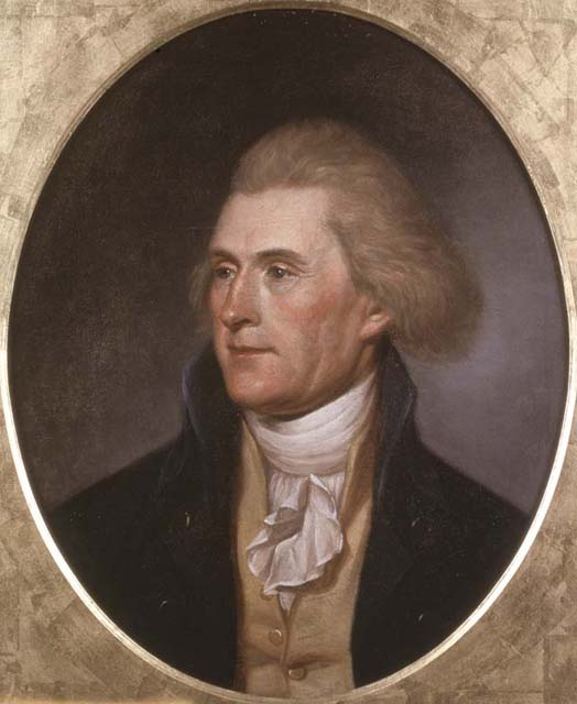 Thomas Jefferson: Charles Willson Peale's vibrant life portrait shows Jefferson as he looked when serving as secretary of state in President Washington's cabinet. The portrait of Jefferson at aged forty-eight hung in Peale's famous museum of science, art, and curiosities in Philadelphia until the collection was dispersed in 1854. The portrait was then purchased for and installed at the Pennsylvania State House (Independence Hall) in the very room where the Declaration of Independence was approved by the Continental Congress in 1776.